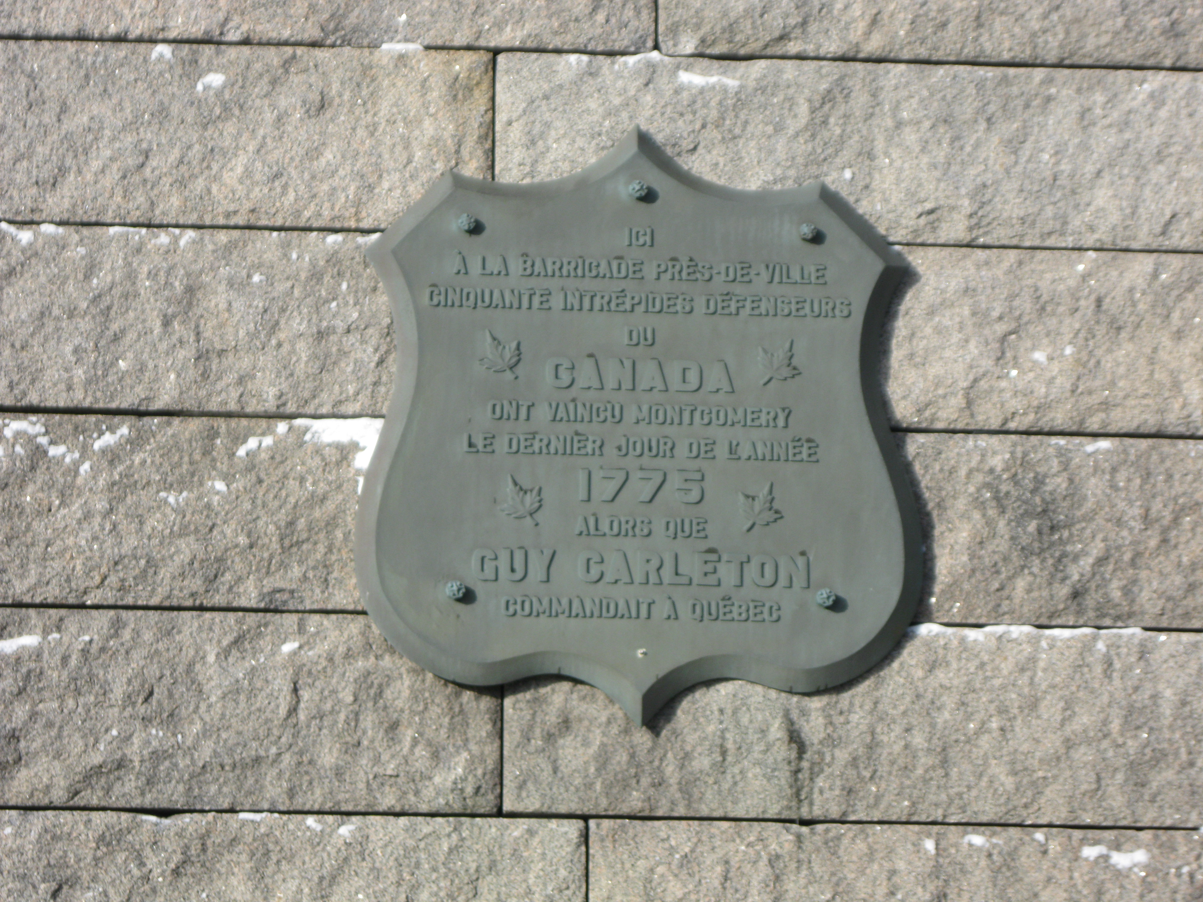 Plaque on a wall, Champlain Boulevard, Lower Town, Old Quebec City